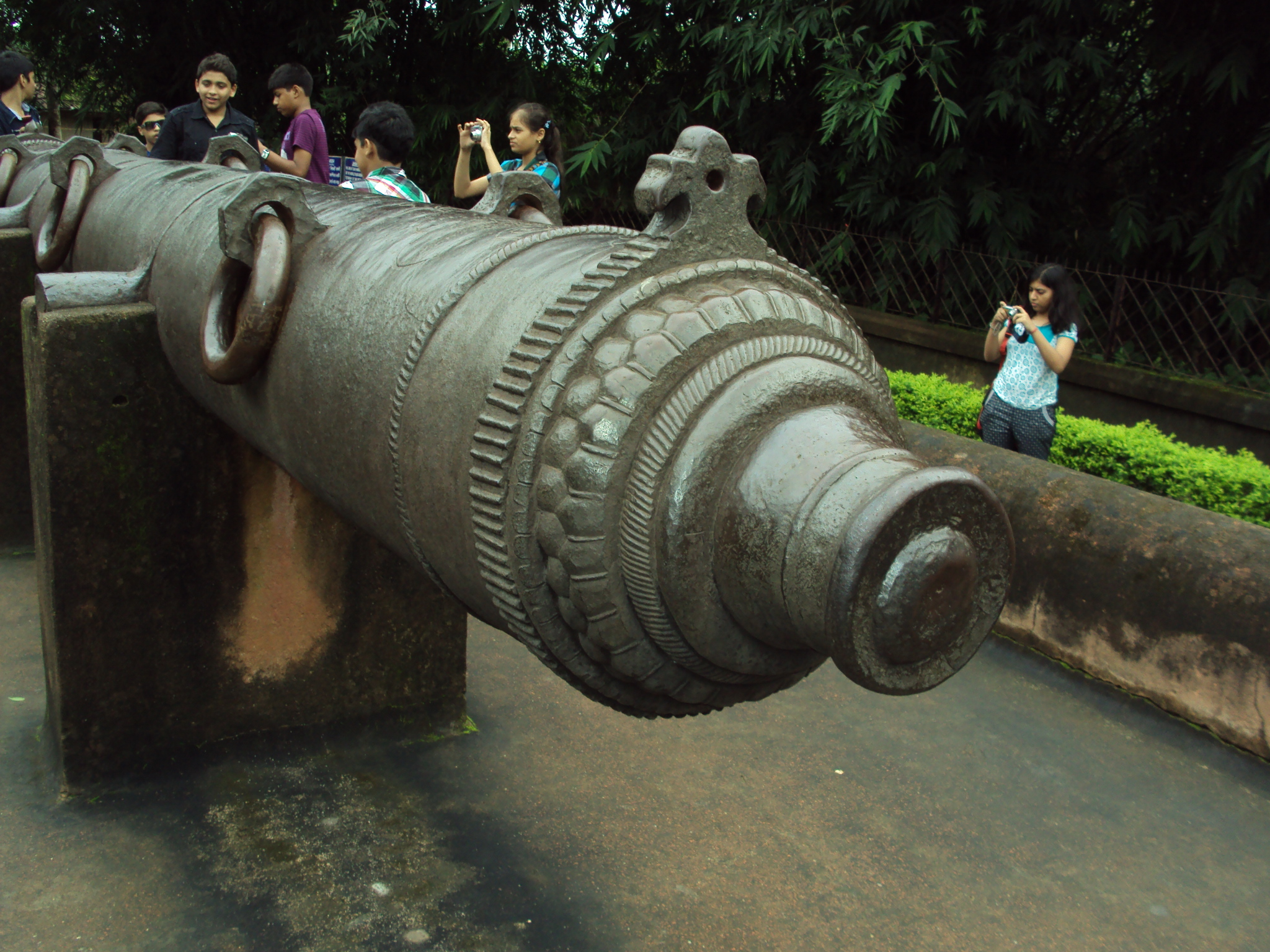 Jahan Kosha Cannon - Murshidabad